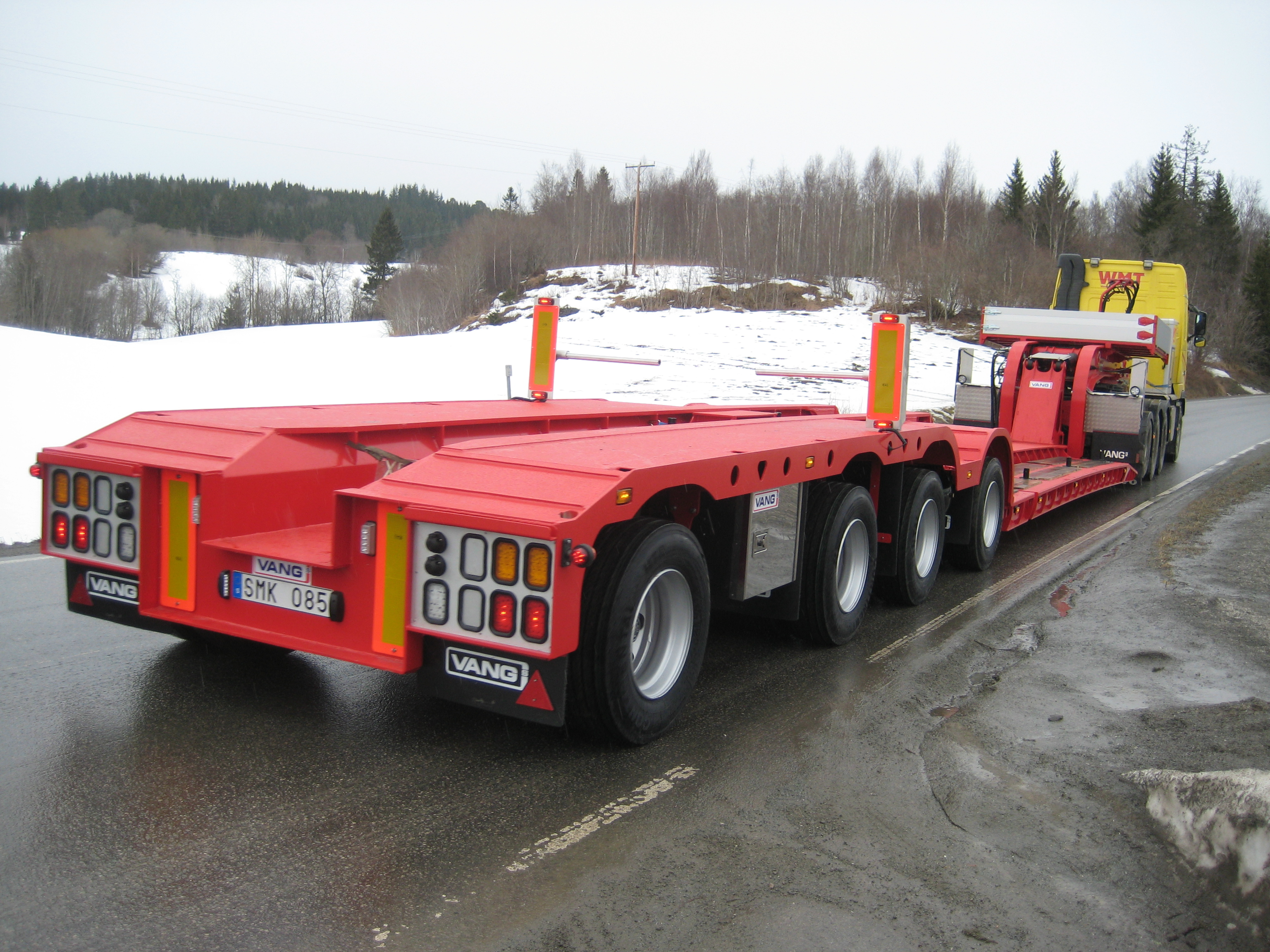 Low loader semi-trailer with detachable goose neck produced på T.N. Vangs Mekaniske Verksted, Inderøy, Norway.